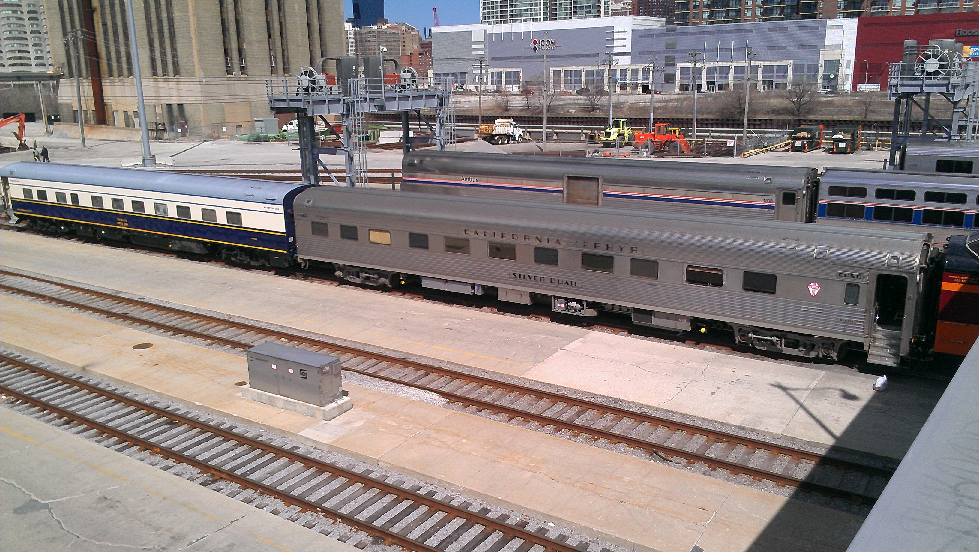 With time to spare between trains I walked down to Roosevelt Road for a little railfanning. At left is the private sleeping car Berlin, still in American Orient Express colors; at right the Silver Quail, formerly a sleeping car on the original California Zephyr. The Berlin was originally the Placid Lake, an 11-double bedroom sleeper built by Pullman-Standard for the Union Pacific in 1956. Budd built the Silver Quail in 1952. Behind them are two Amtrak cars: a baggage car and a Viewliner sleeping car.